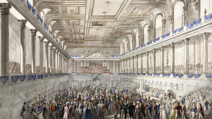 Redoubt at the Congress of Vienna (1815)